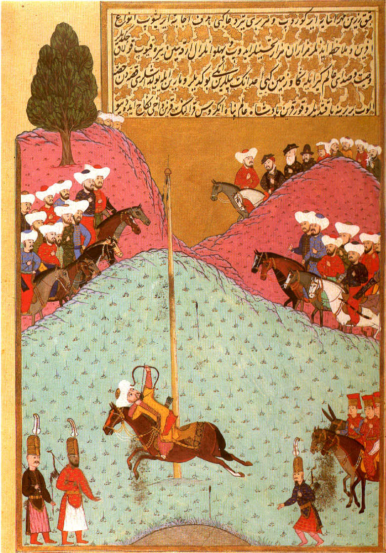 Sultan Murad II at archery practice. Hazine 1523, folio 138a